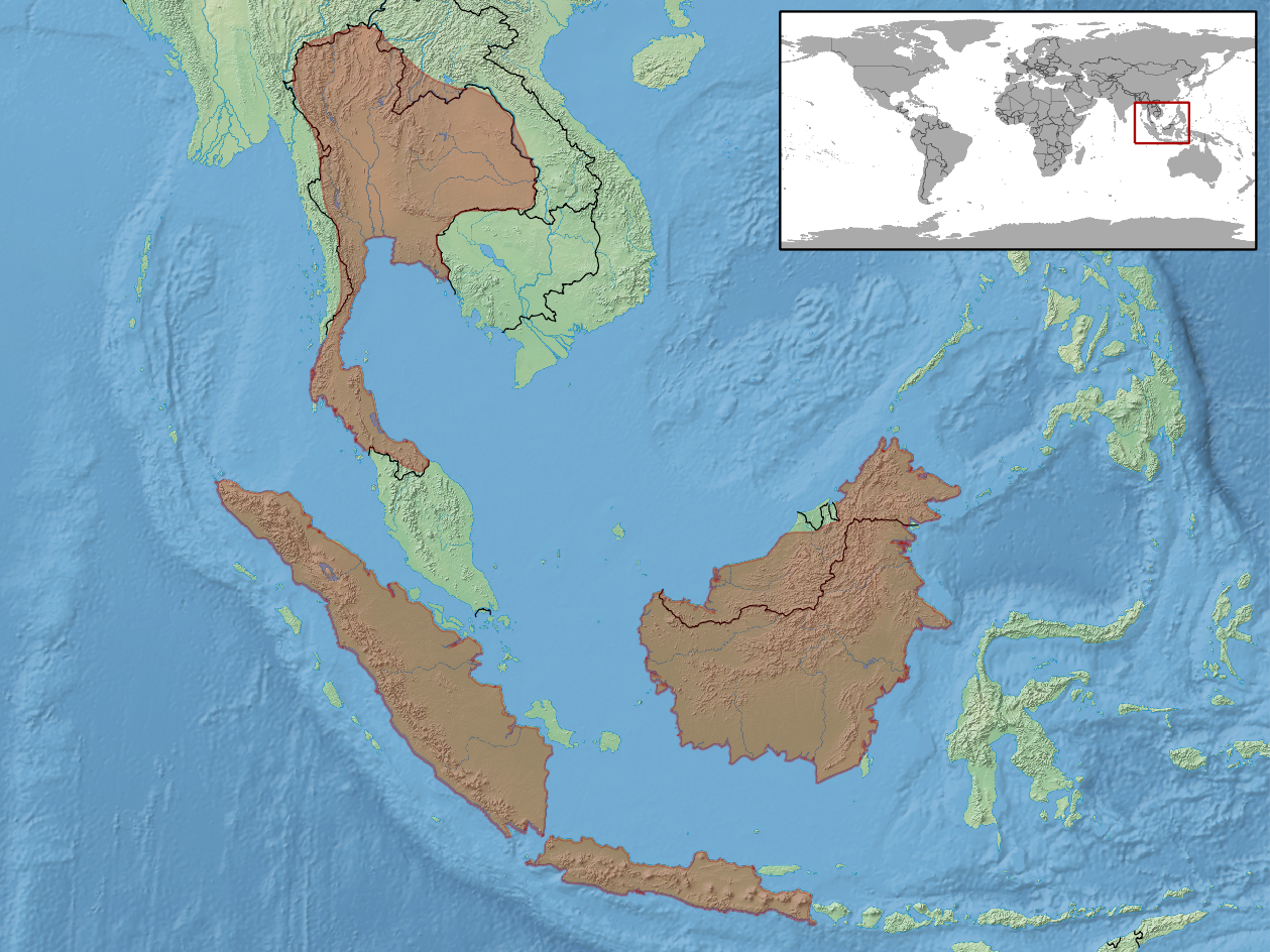 geographic distribution of Draco haematopogon (Native: Indonesia (Jawa, Kalimantan, Sumatera); Malaysia (Sabah, Sarawak); Thailand)